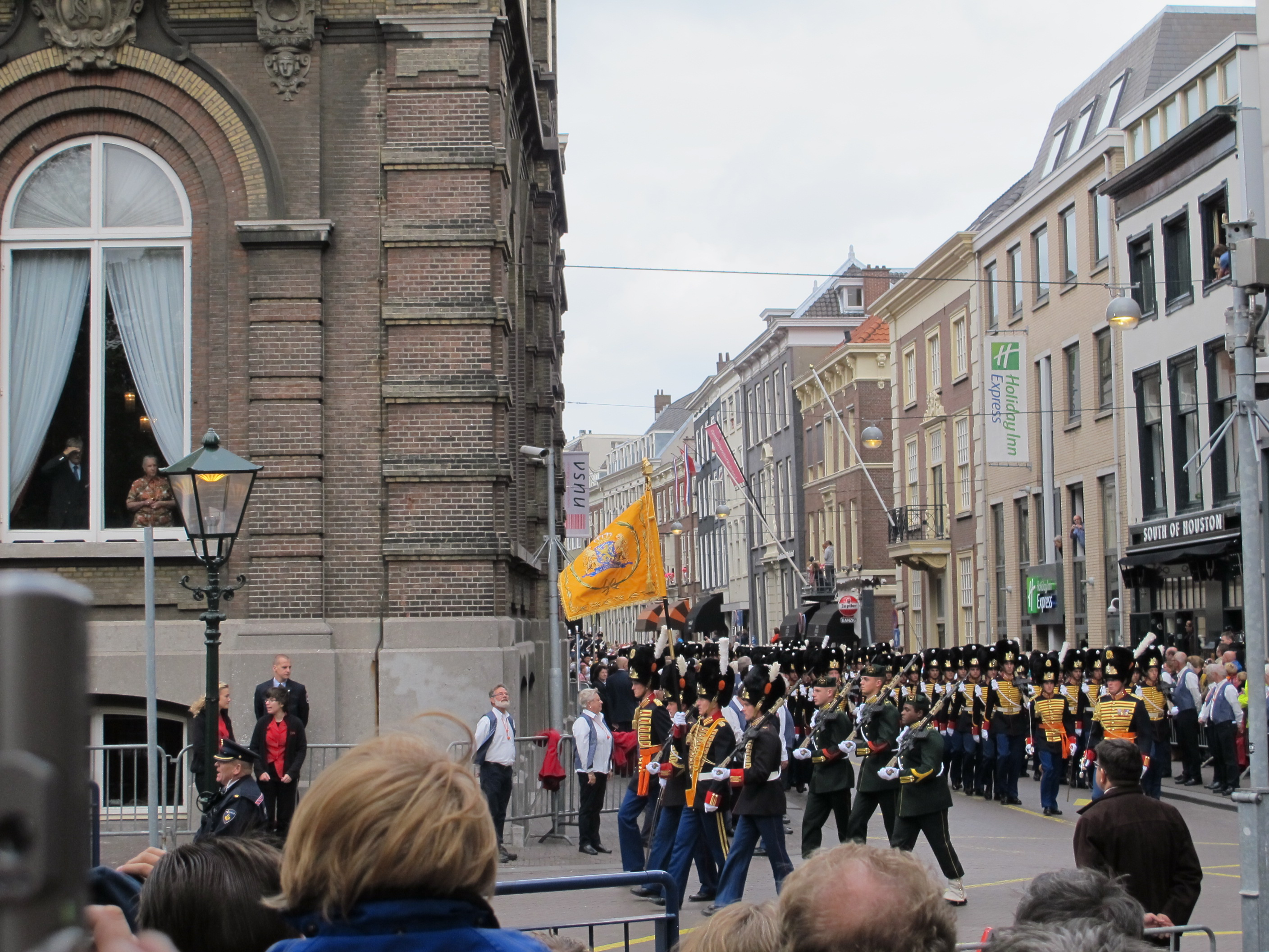 Prinsjesdag 2013 - Royal Tour at Plein, The Hague